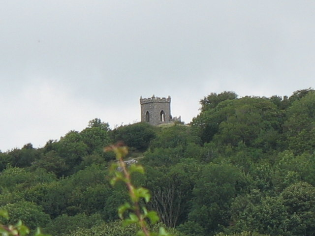 Kirkhead Tower Long distance shot of the tower which does not have public access to